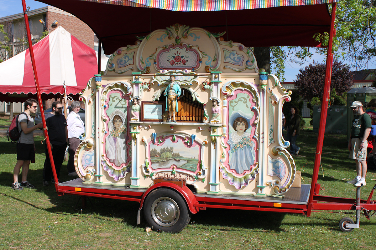 Dutch streetorgan De Violanta in New Brunswick, NJ